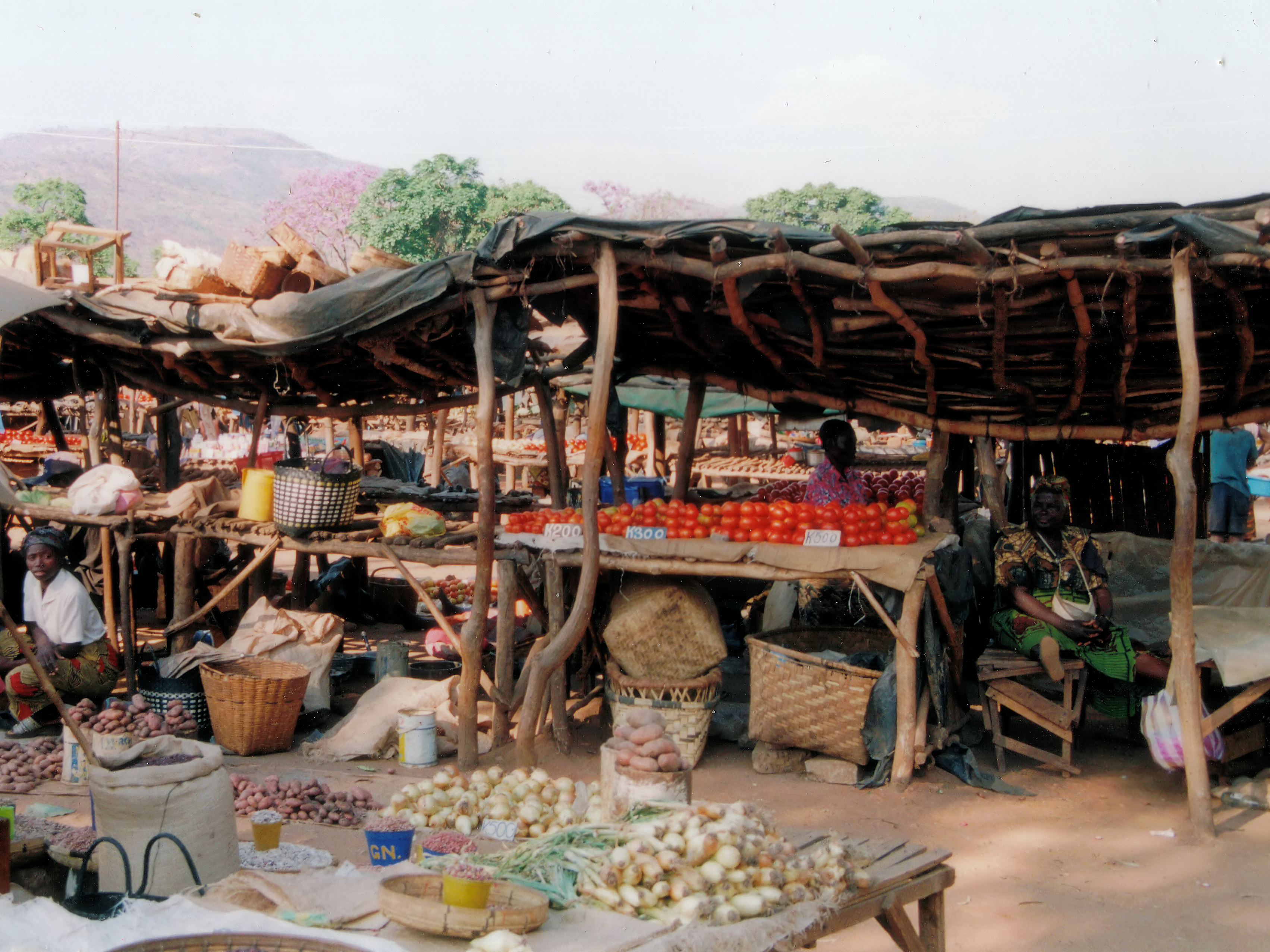 Market stalls in Chipata, Zambia. Scanned from photograph